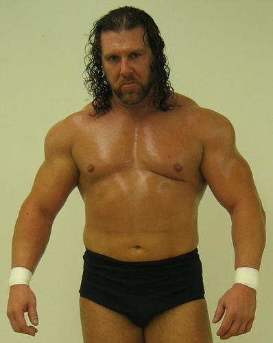 Gary Williams at 2006 Photo Shoot